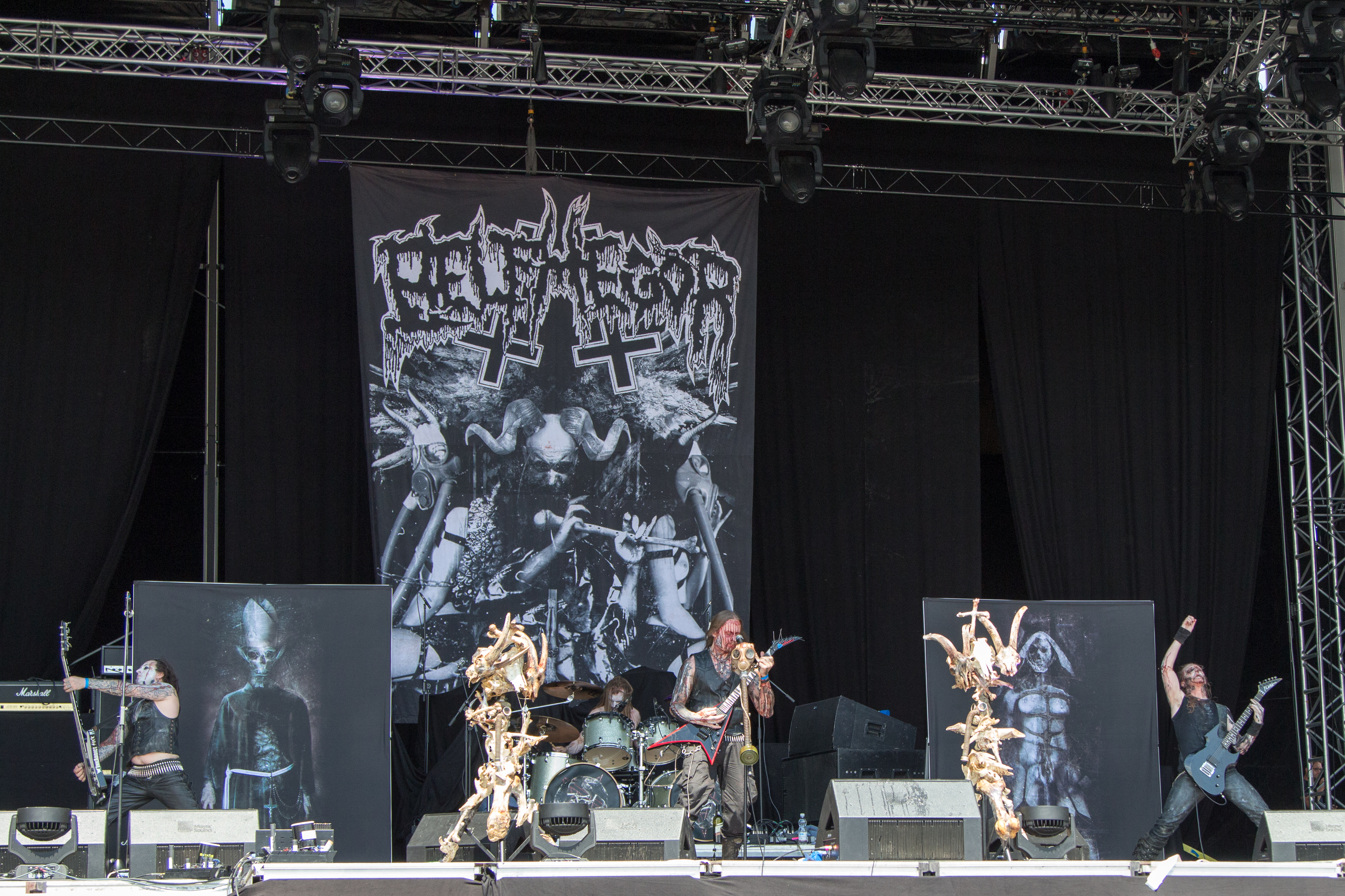 Belphegor at the See-Rock Festival 2014